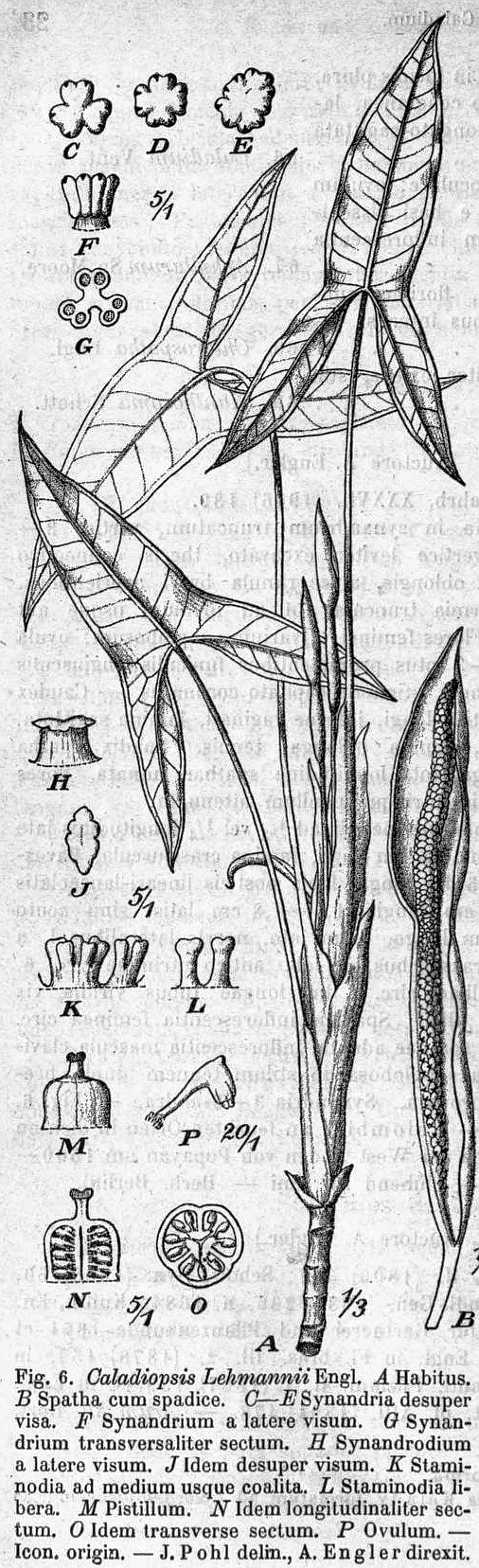 Chlorospatha lehmannii botanical drawing